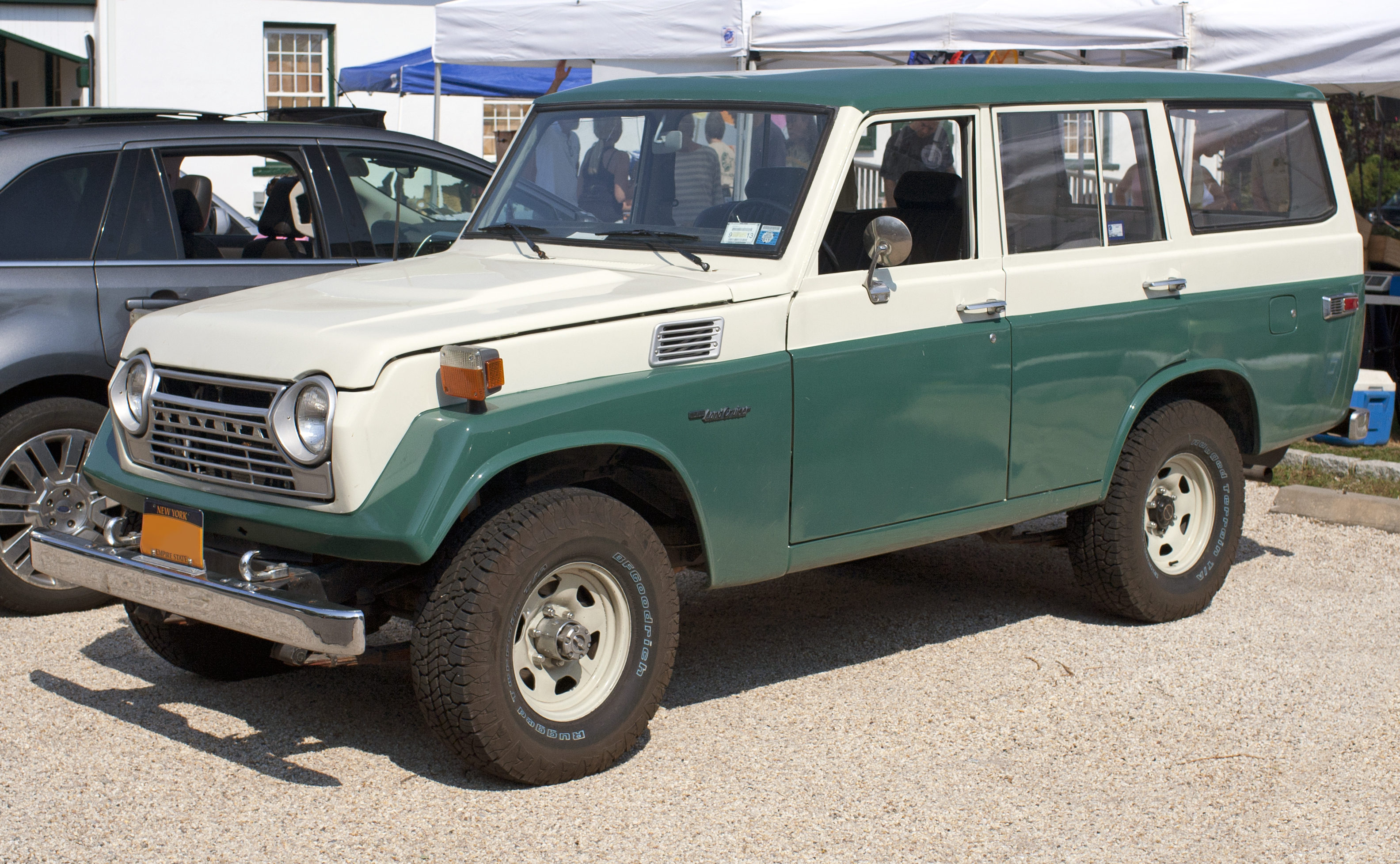 1979 Toyota Land Cruiser FJ55